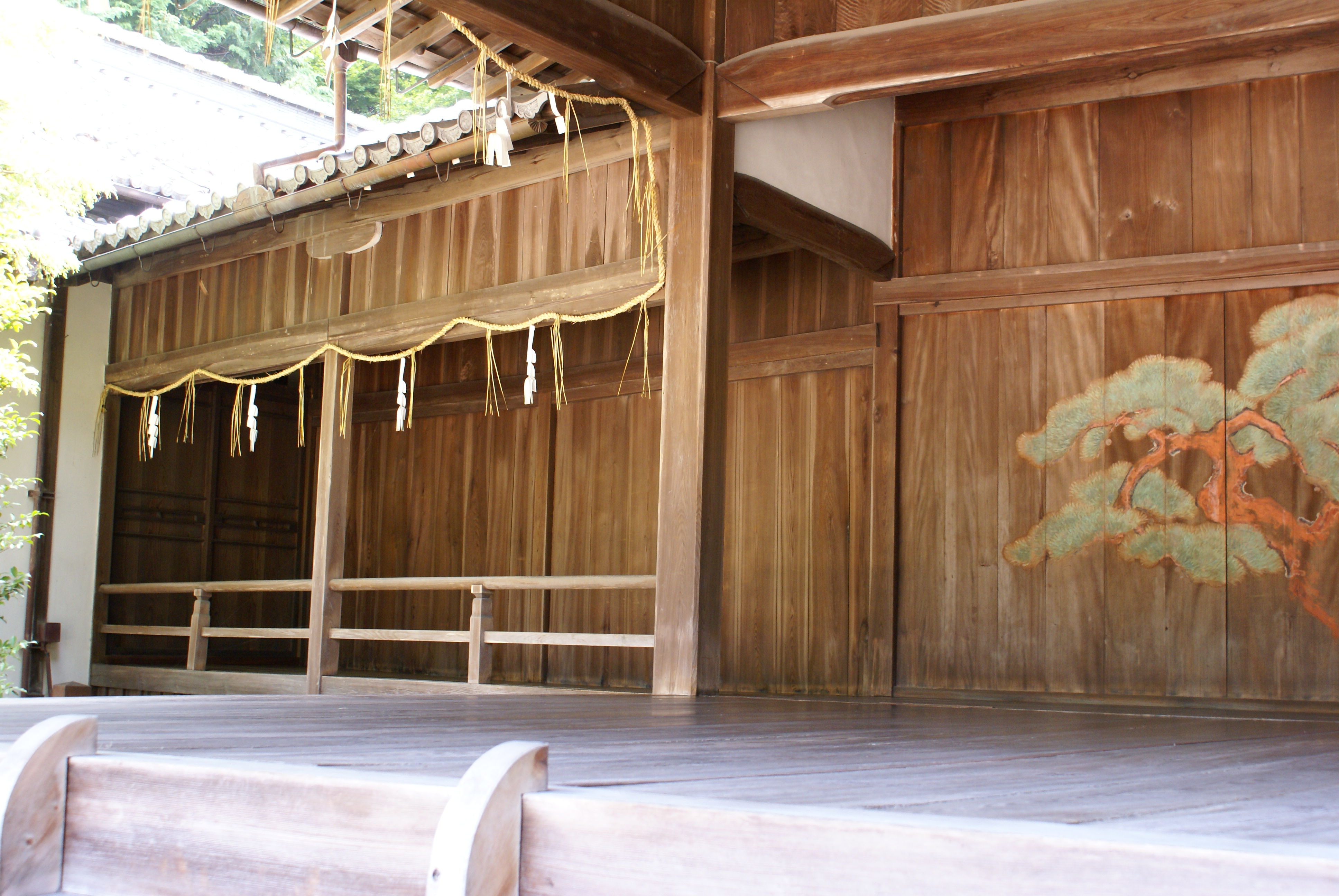 Hashigakari of a Noh butai